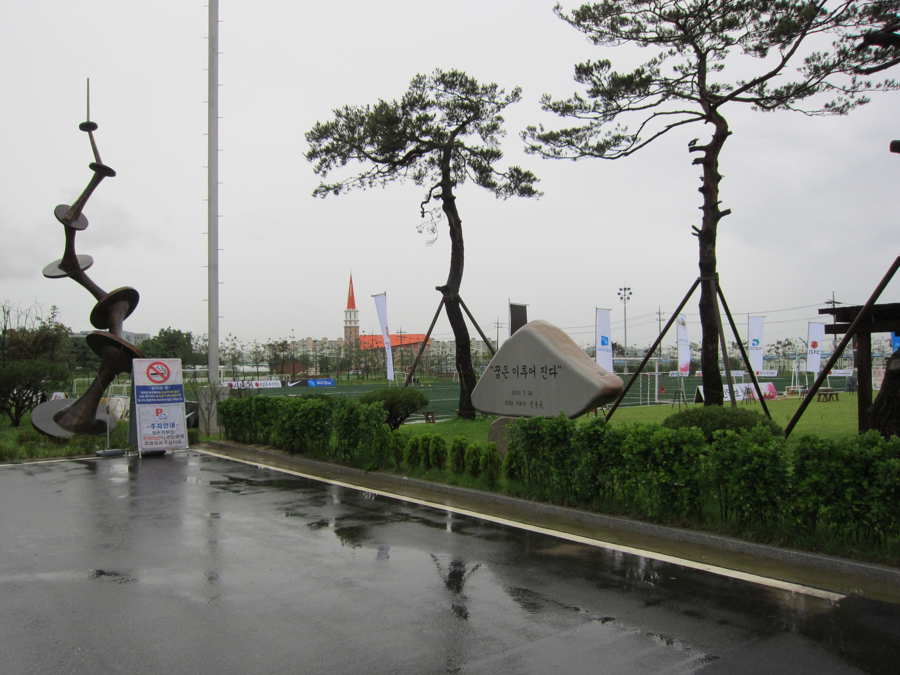 Ji-Sung Football Center